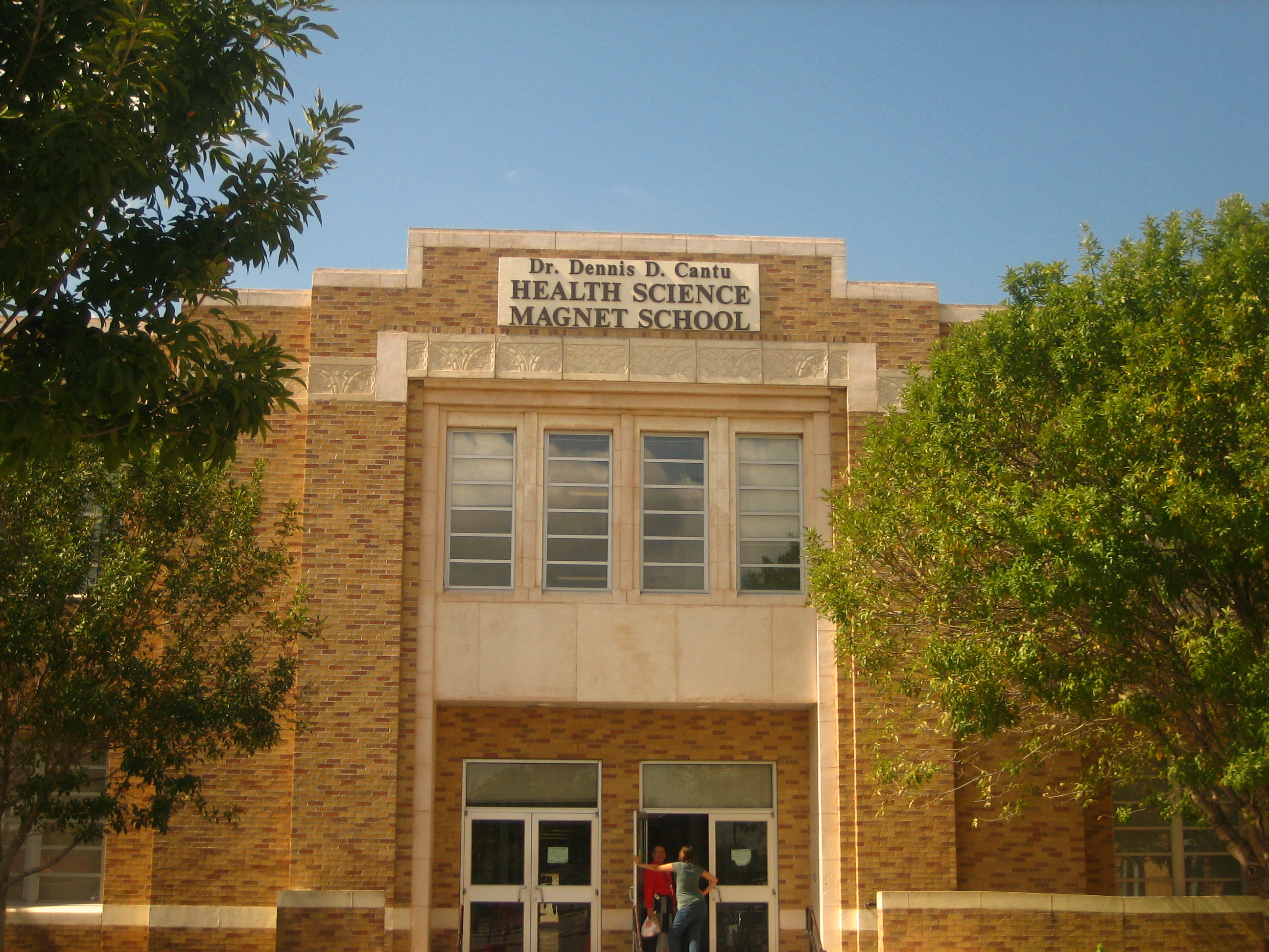 I took photo on Nov. 3, 2008.Billy Hathorn (talk) 03:04, 4 November 2008 (UTC)